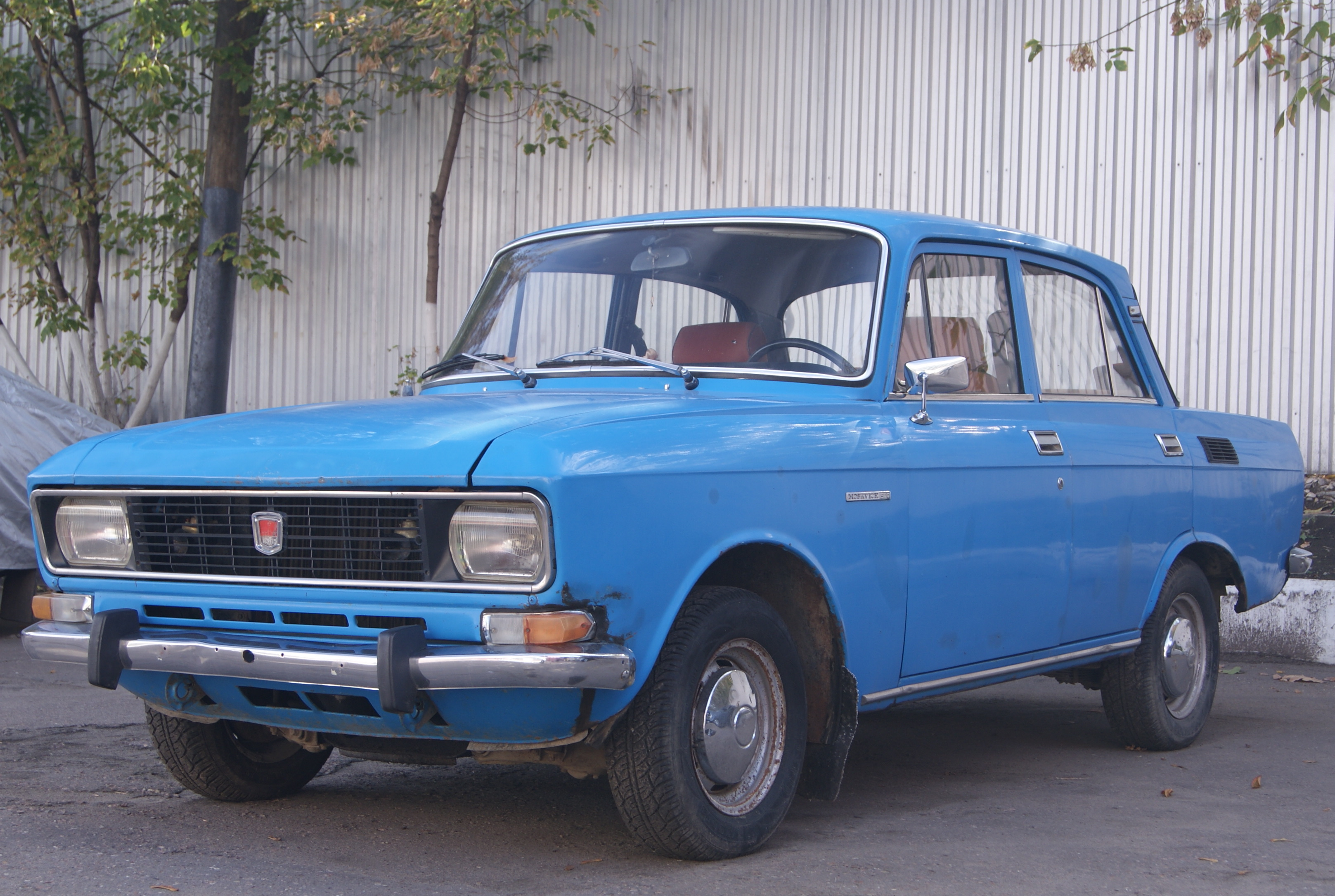 Moskvich 2140.